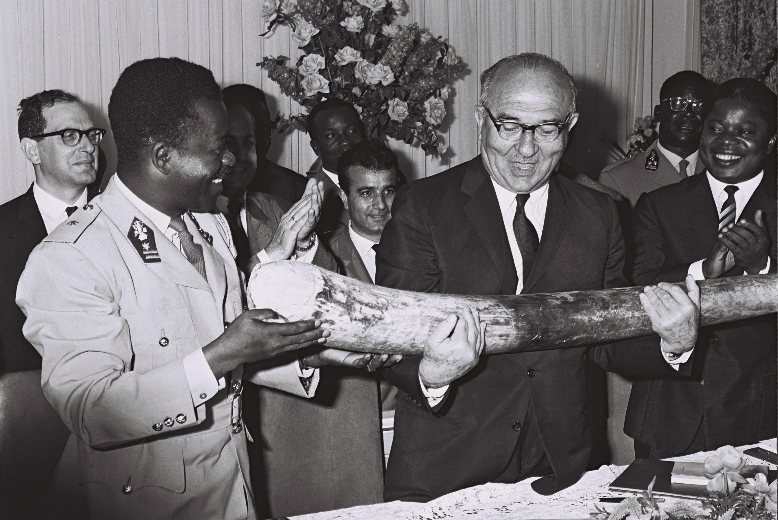 Congo p.m. Mulamba presenting p.m. Levy Eshkol with an elephants' tusk, during visit of p.m. Eshkol in Congo.